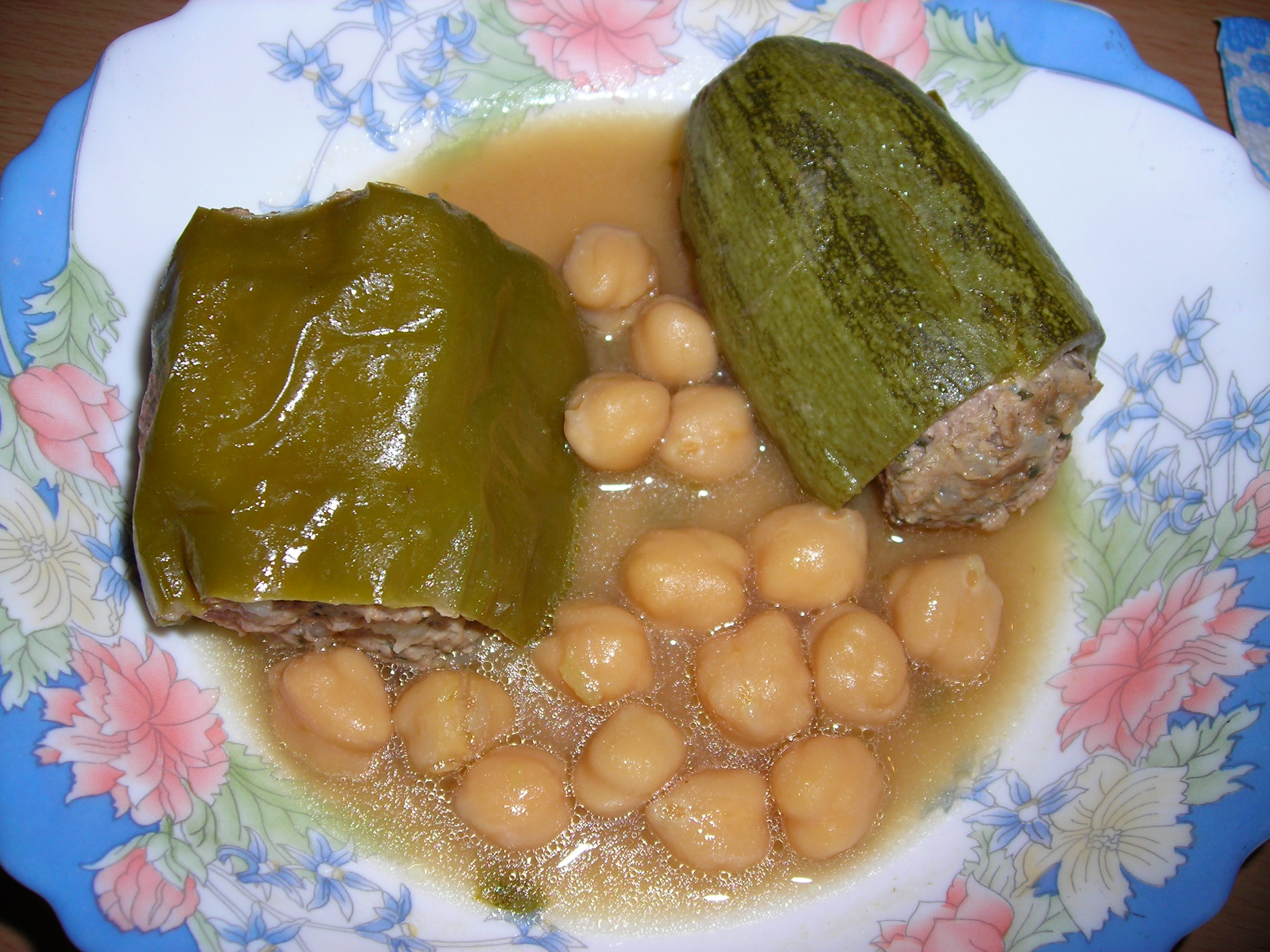 This is an image of food from Algeria